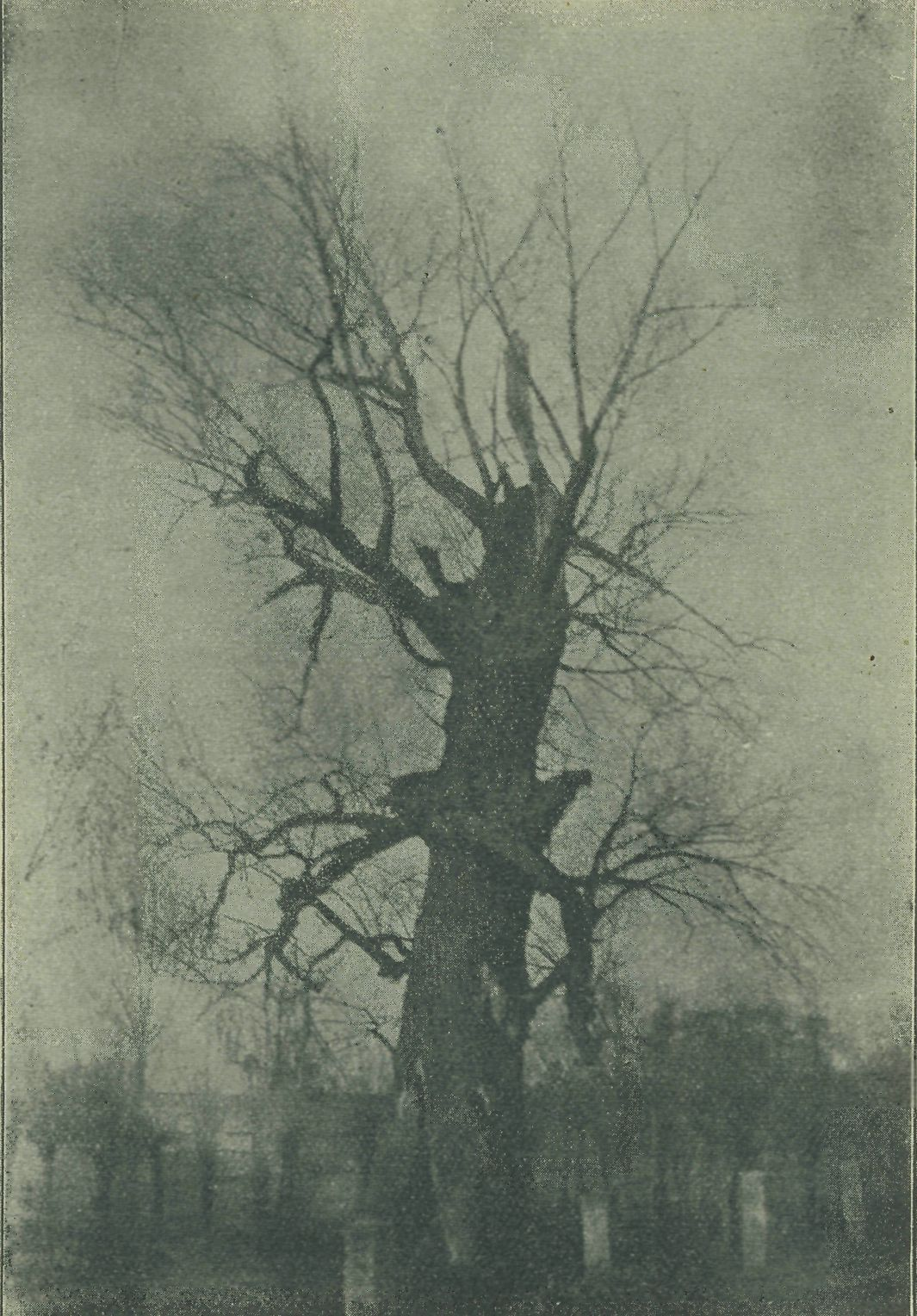 Memorable poplar tree near Malovarský pond near Velvary, Czech republic. Trunk circumference of 1038 cm. Historical photo by Jan Vilím.